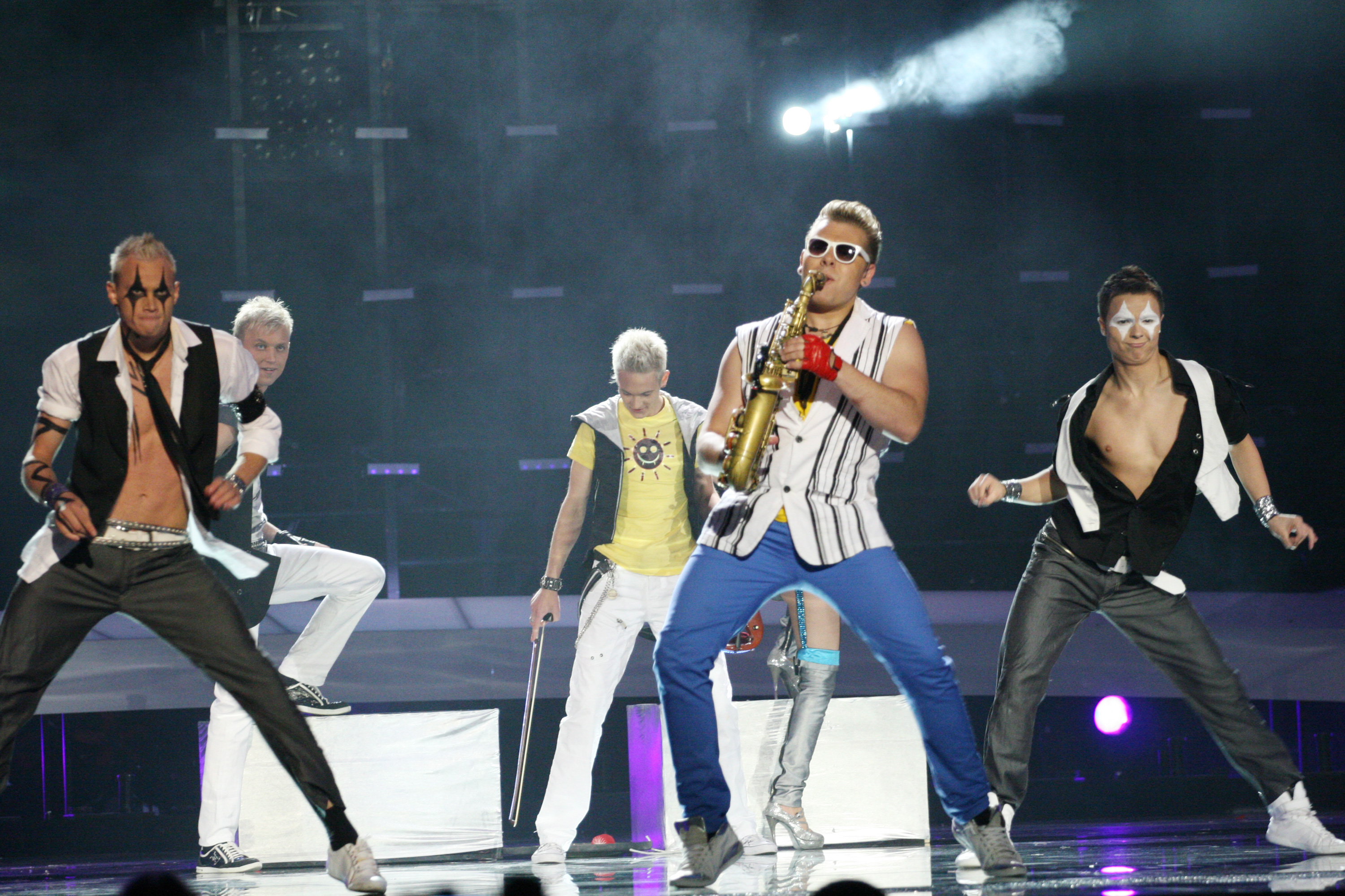 Sunstroke Project & Olia Tira at Eurovision Song Contest Oslo 2010 Foto: Erik F. Brandsborg